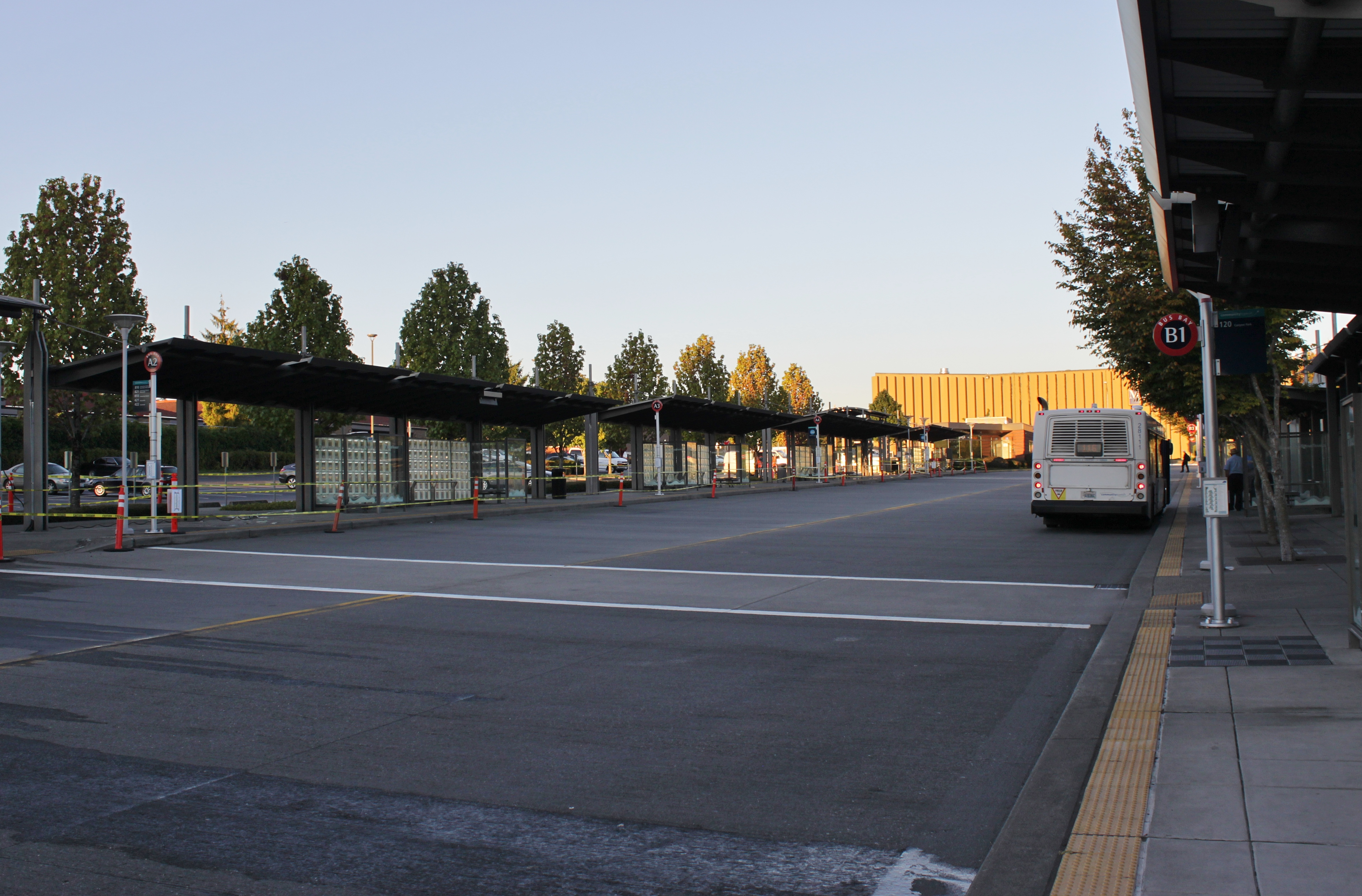 Lynnwood Transit Center bays during a repainting project